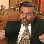 Yunus Qanuni, leader of the Afghanistan e Naween (New Afghanistan) political party and Speaker of the House of the Representatives (the lower house of parliament).